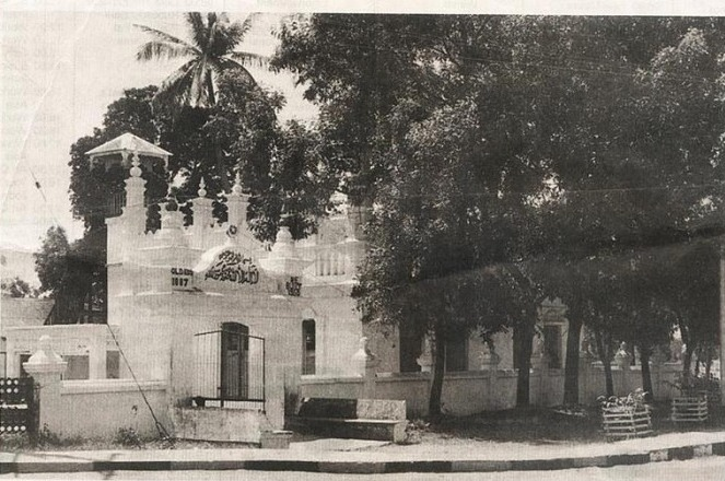 A picture of a mosque in Akyab in colonial Burma